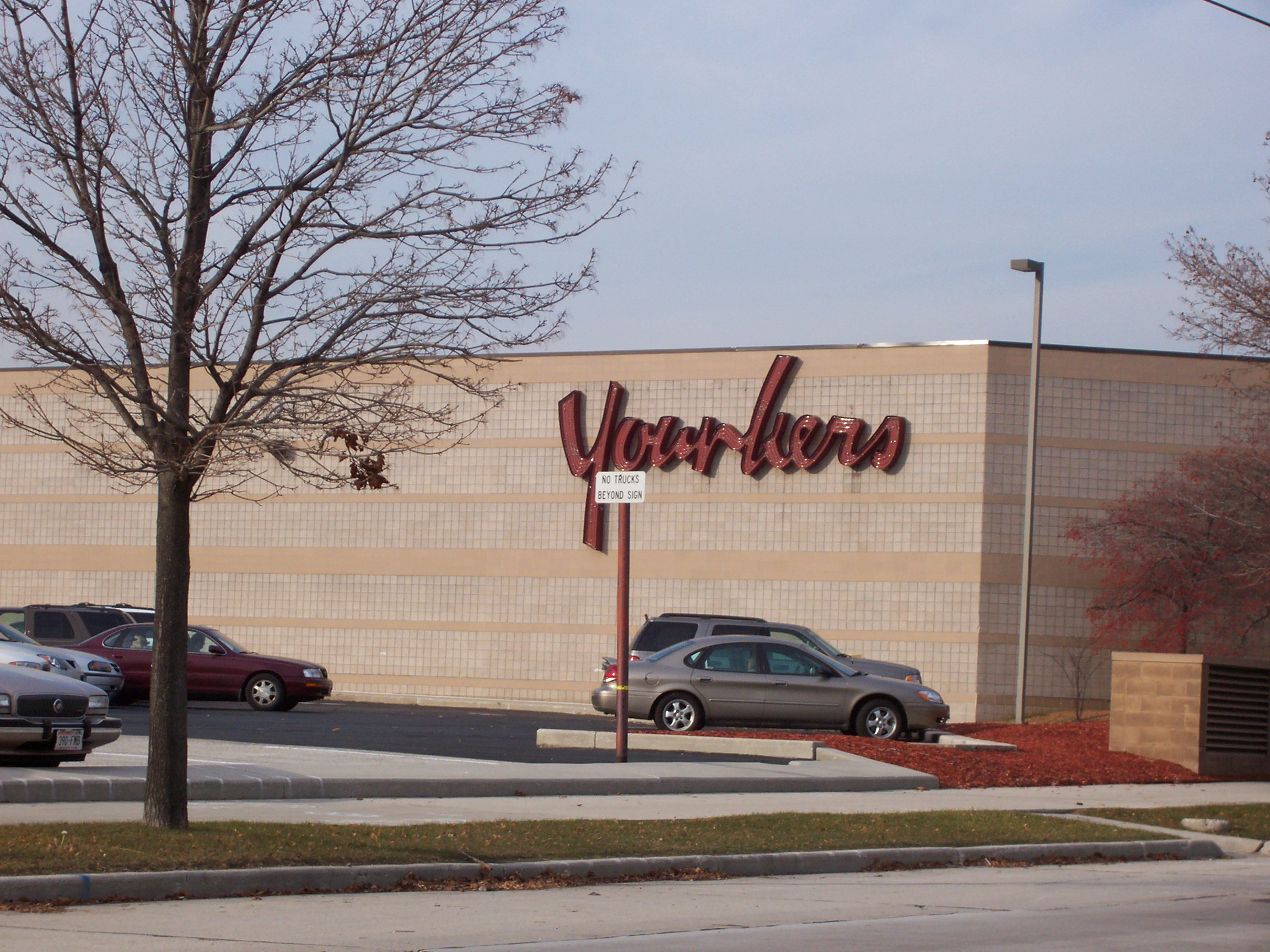 The Younkers store in downtown Sheboygan, Wisconsin, USA. The building was the location of the original H. C. Prange Co. store.